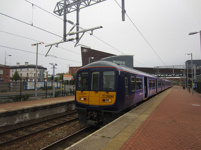 Northern Electrics 4-Car Class 319 EMU at St Helens Central (Platform 2 Liverpool bound)